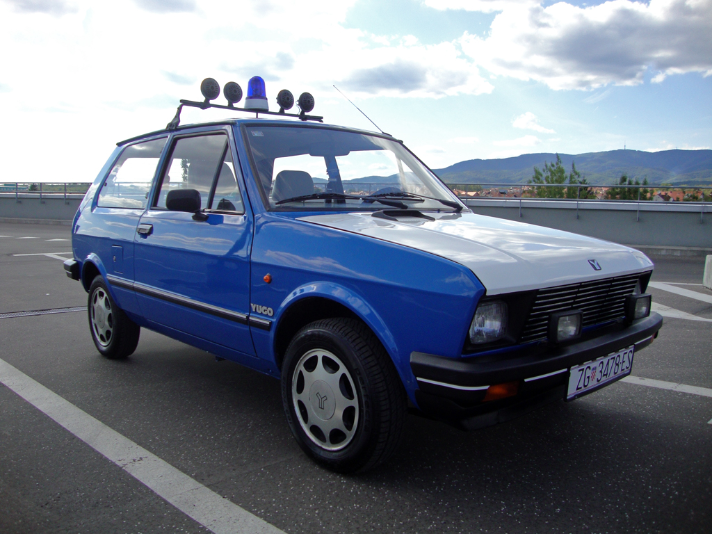 Zastava Yugo Police Car in SFR Yugoslavia (1990)